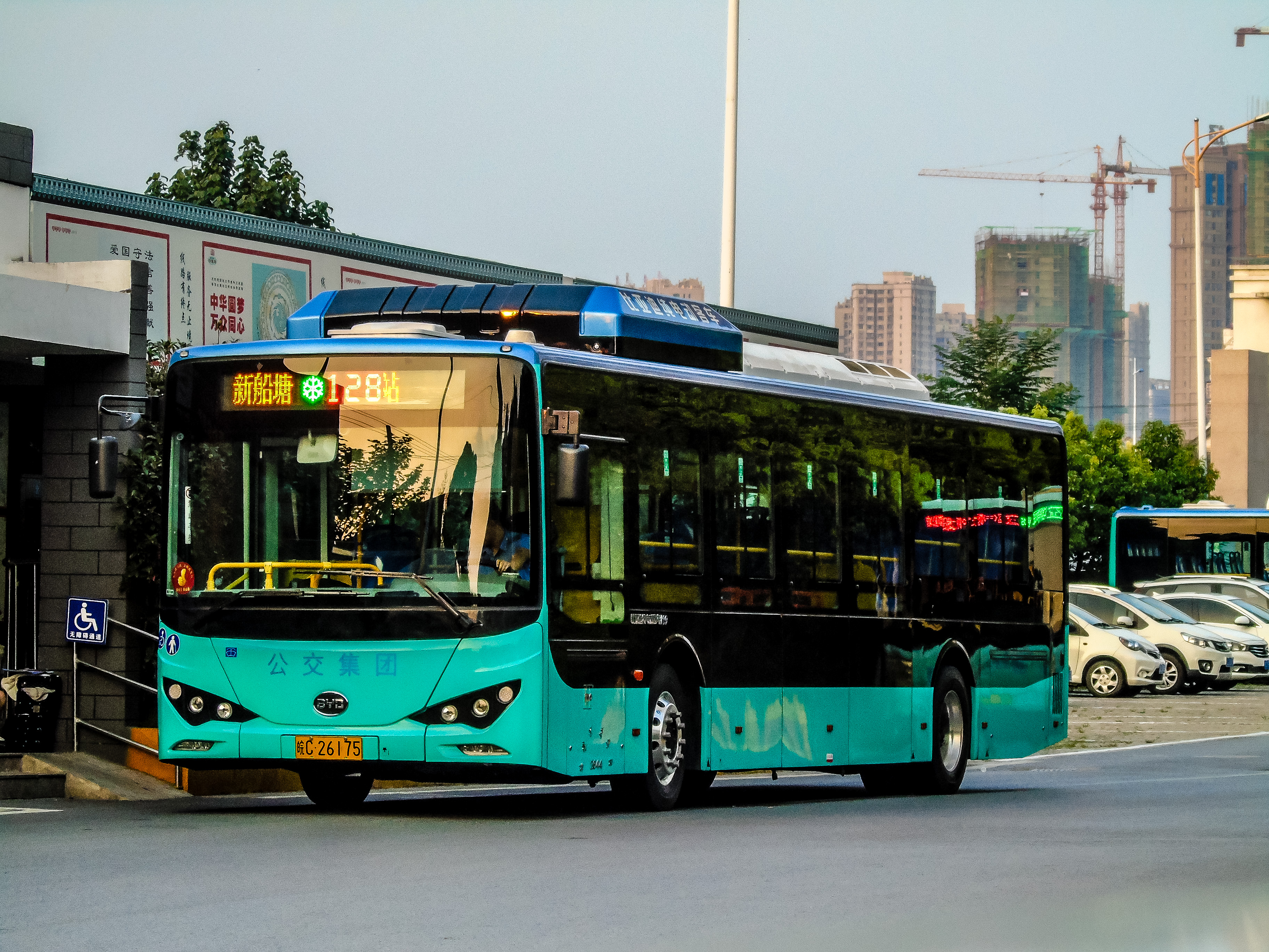 Bengbu Bus No.128 N